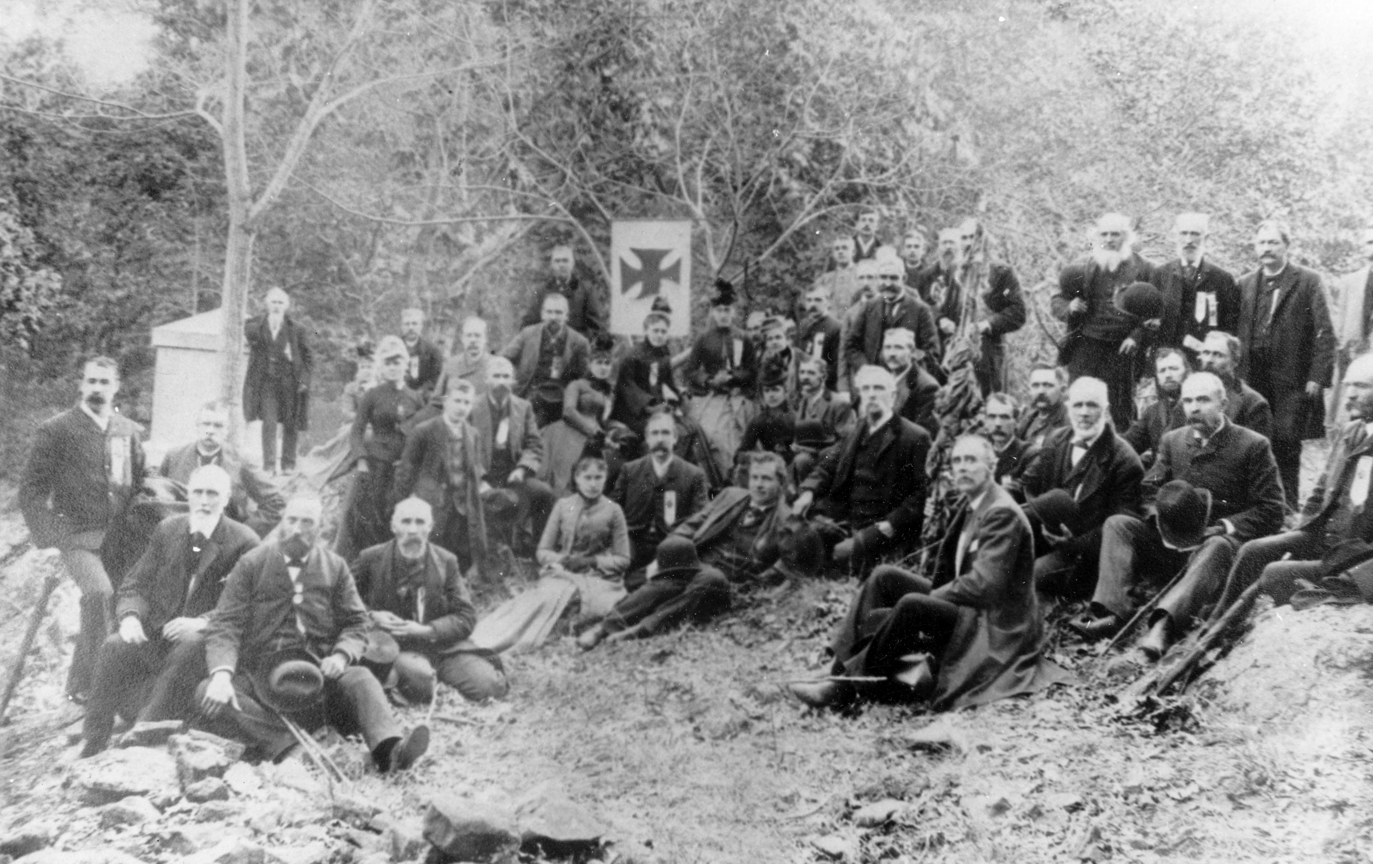 In 1889 veterans of the 20th Maine Volunteer Infantry gathered at Gettysburg, Pennsylvania, with General Joshua L. Chamberlain, the officer who commanded them in battle. Chamberlain is seated at center right, bracketed by the Maltese Cross banner and the unit's regimental flag. Upright object on the left is a monument to the unit erected by its veterans. Black and white photograph. Retouched by MarmadukePercy.